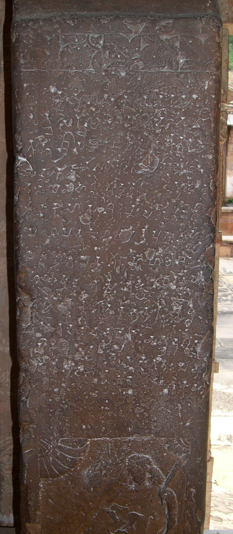 Inscription of Nagavarman on a hero-stone from Hasalpur, Madhya Pradesh, India.